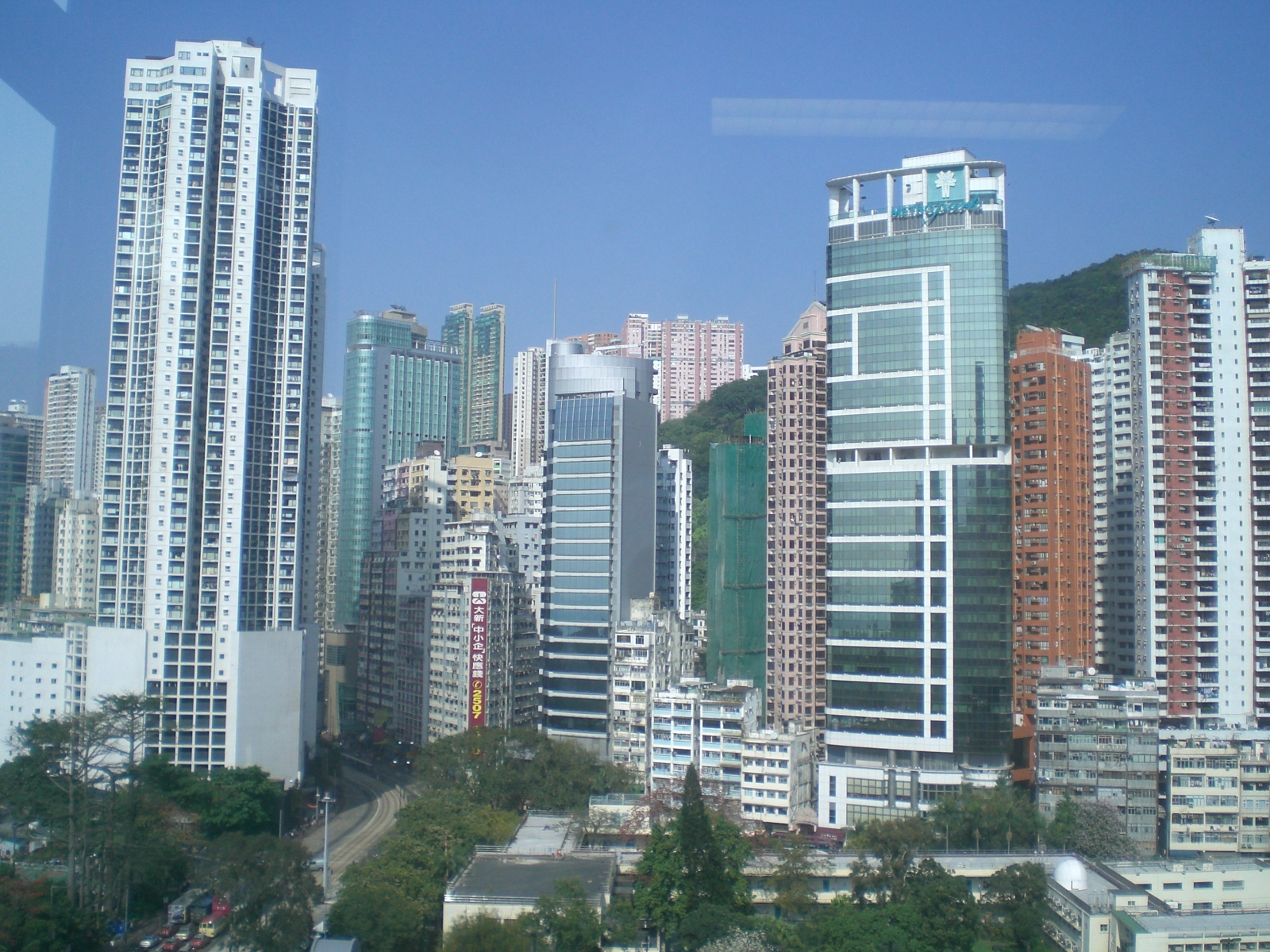 銅鑼灣 香港中央圖書館外望風景 香港銅鑼灣海景酒店 香港銅鑼灣維景酒店 百樂商業大廈 柏景臺